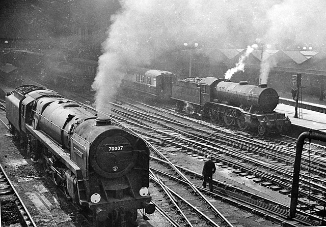 Locomotives at Liverpool Street Station in Steam days. View SW from the cab road off Primrose St.; ex-Great Eastern major London terminus. On the left is BR Standard Class 7 'Britannia' 4-6-2 No. 70007 'Coeur de Lion' in the Loco Yard, while to the right is K3 Class 2-6-0 No. 61880 at Platform 10, ahead of an Up express; beyond are the West Side suburban platforms. In those days Liverpool Street Station was always in a pall of smoke.